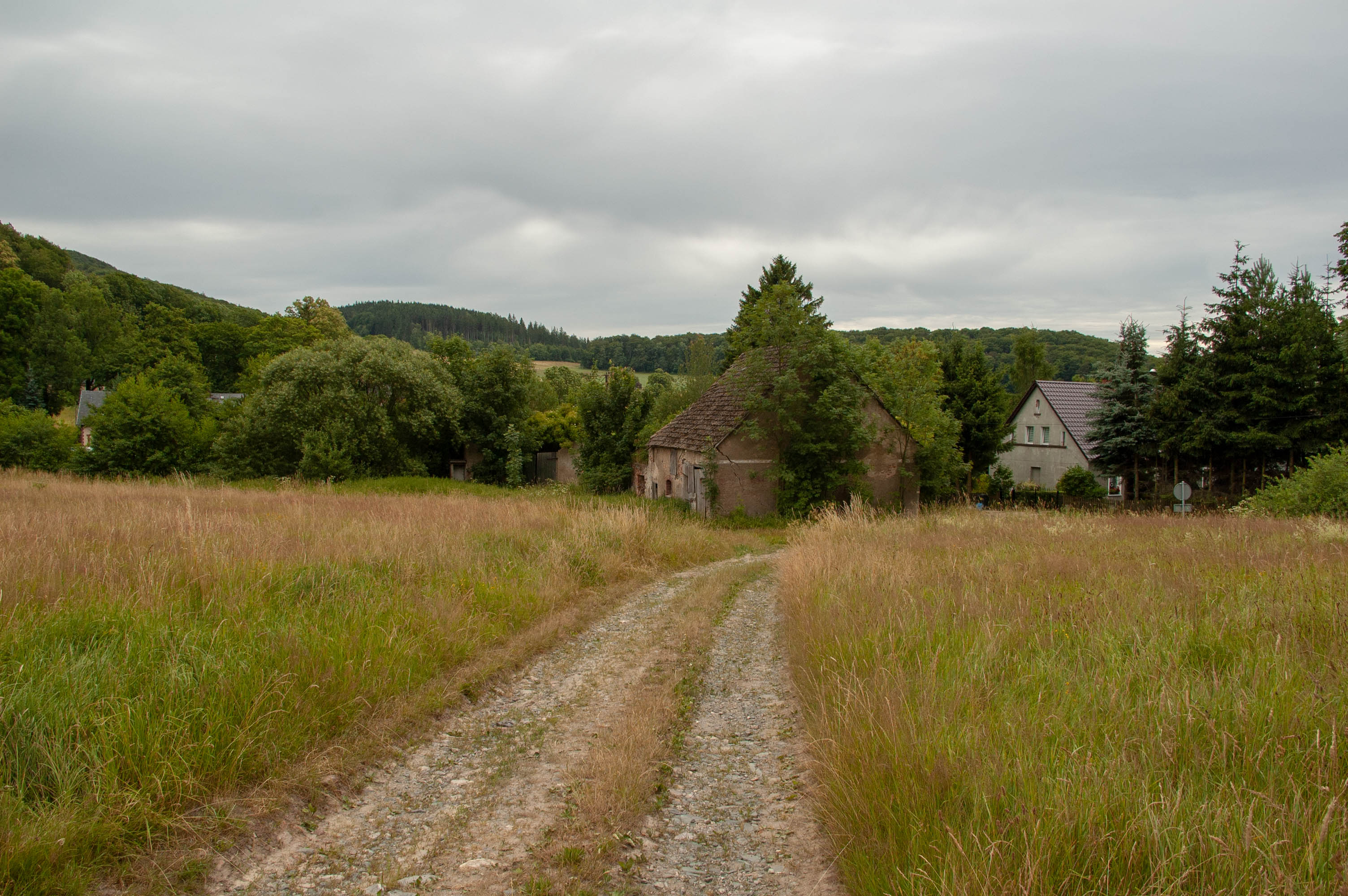 This photograph was created as a part of Wikiexpedition Lower Silesia, a project supported by Wikimedia Poland grant.